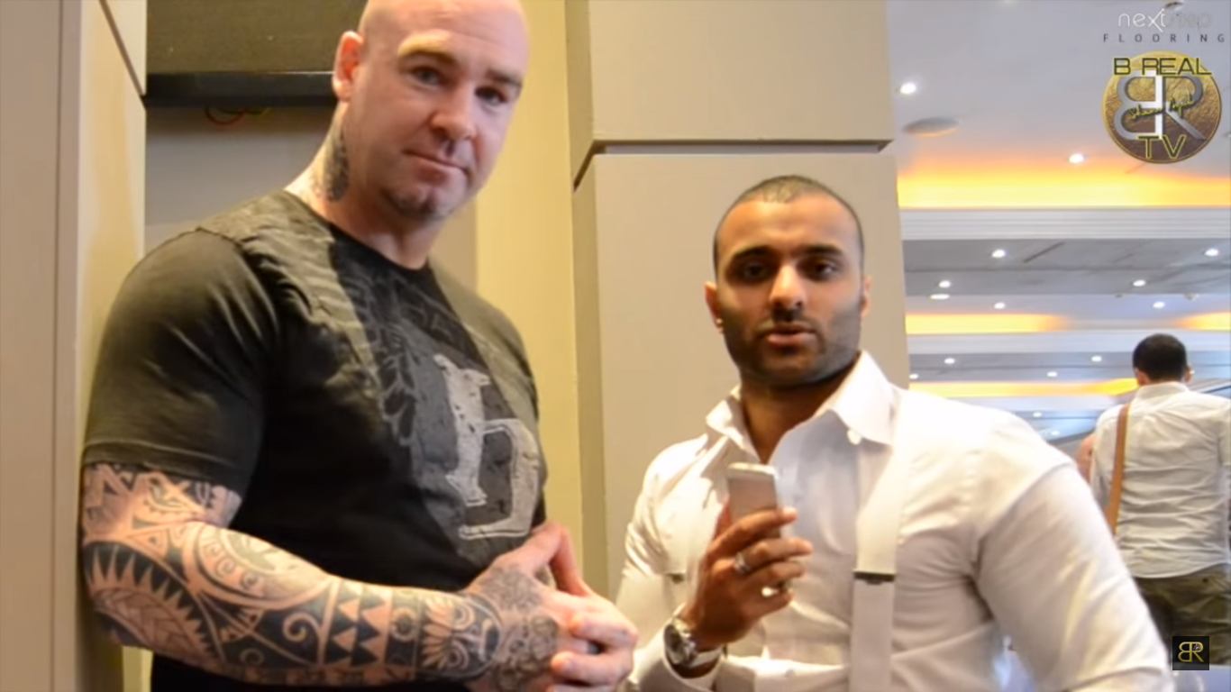 Lucas Browne during an interview in 2014.